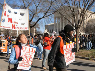 Affirmative Action March in Washington led by The Coalition to Defend Affirmative Action, Integration & Immigrant Rights And Fight For Equality By Any Means Necessary